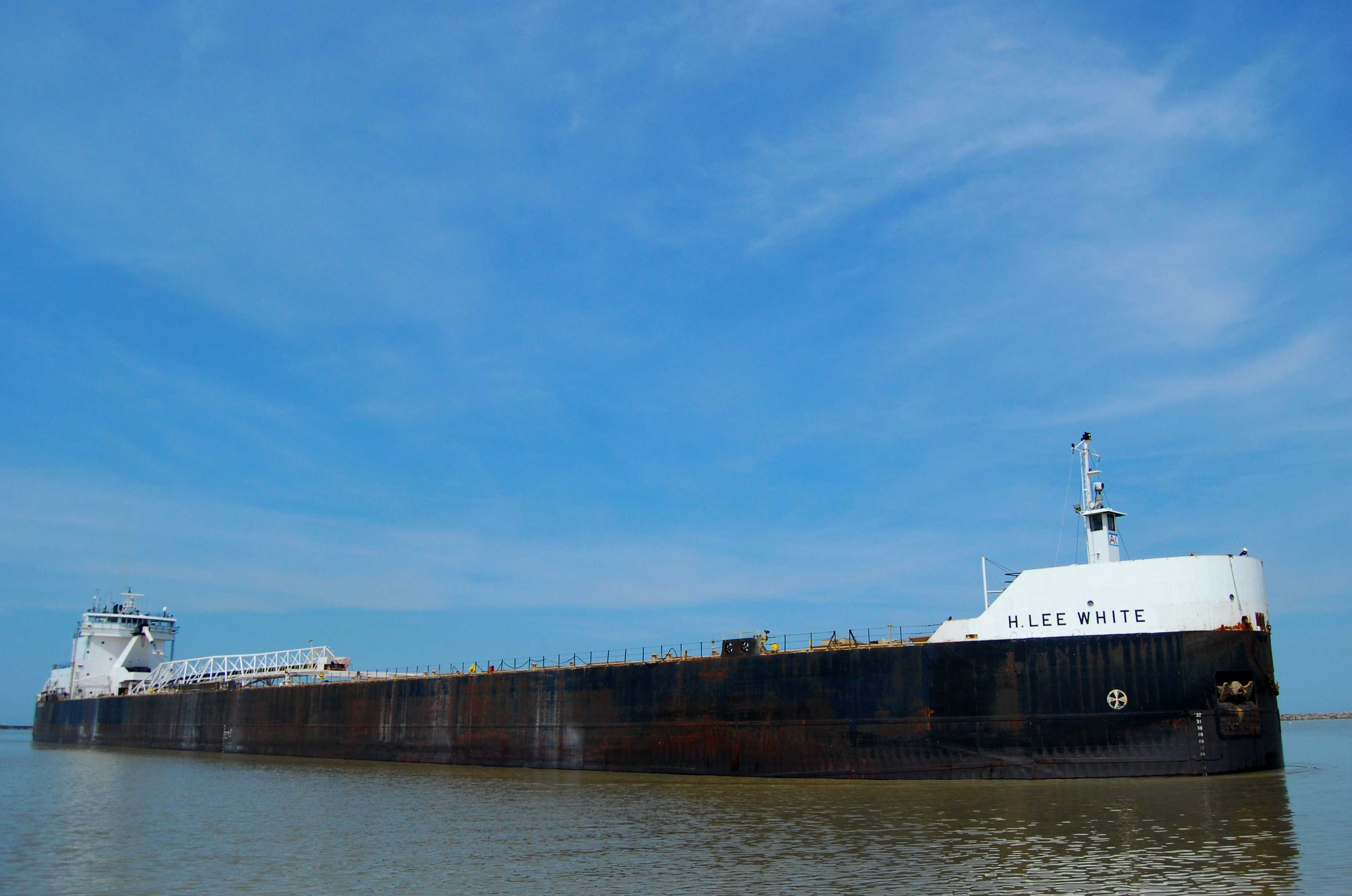 The H. Lee White was the first freighter in Lorain for the '08 shipping season. It arrived about 2 p.m. today with a load of stone for the steel mill.